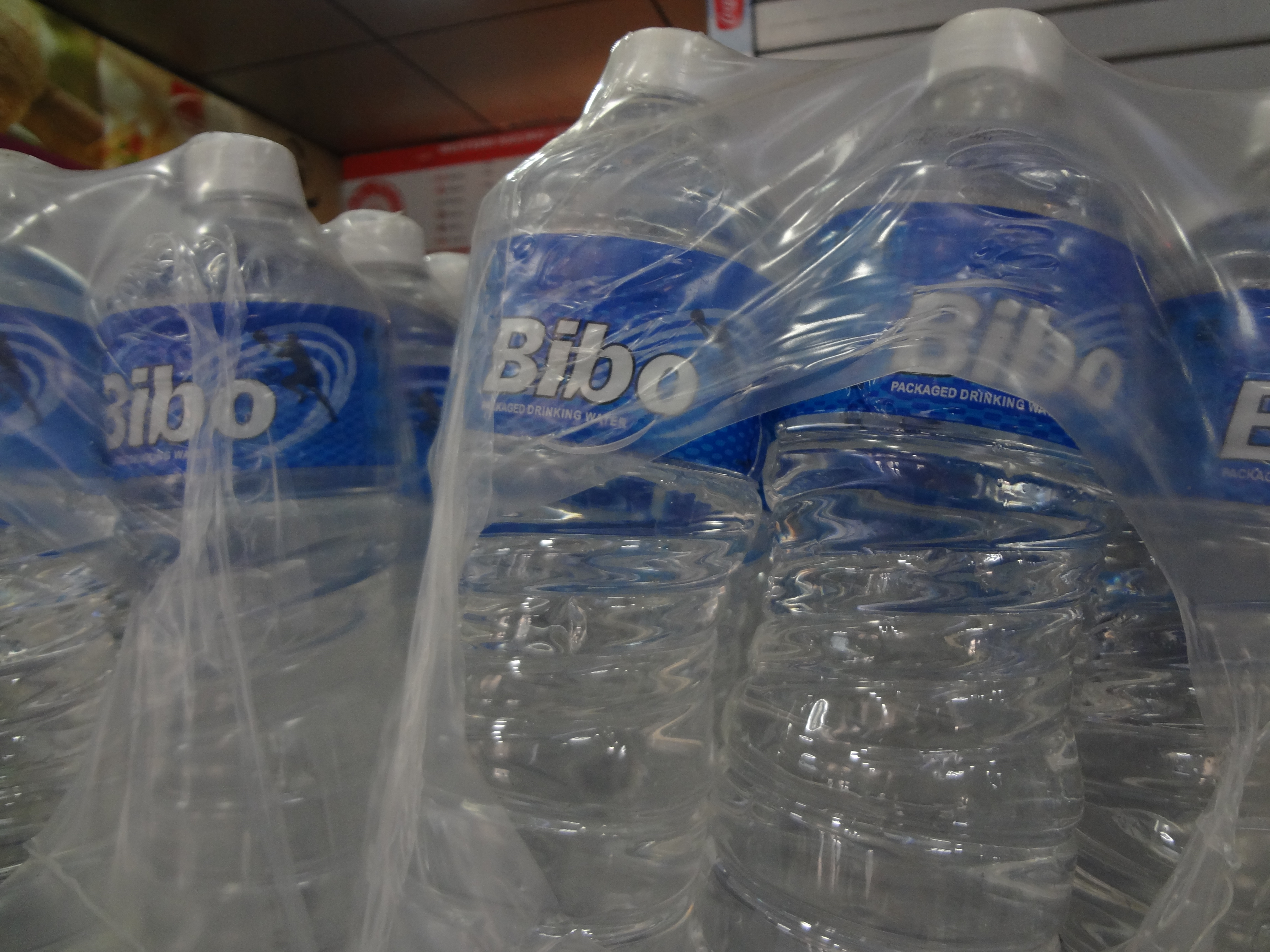 Plastic bottles of water. Mumbai Photowalk II